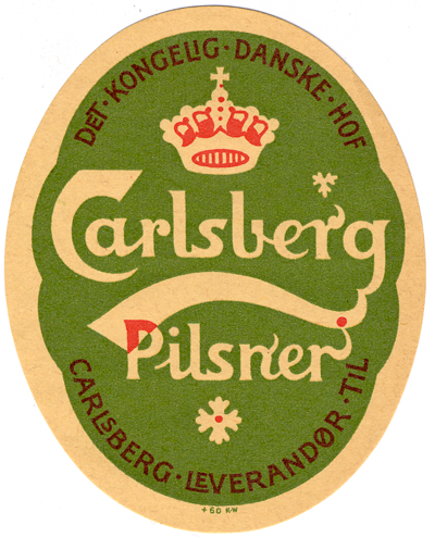 1904 Carlsberg Pilsner label designed by Thorvald Bindesbøll. Label top: DET•KONGELIG•DANSKE•HOF [The Royal Danish Court] Label center: Carlsberg Pilsner [Carlsberg Lager] Label bottom: CARLSBERG•LEVERANDØR•TIL [Carlsberg Supplier to]